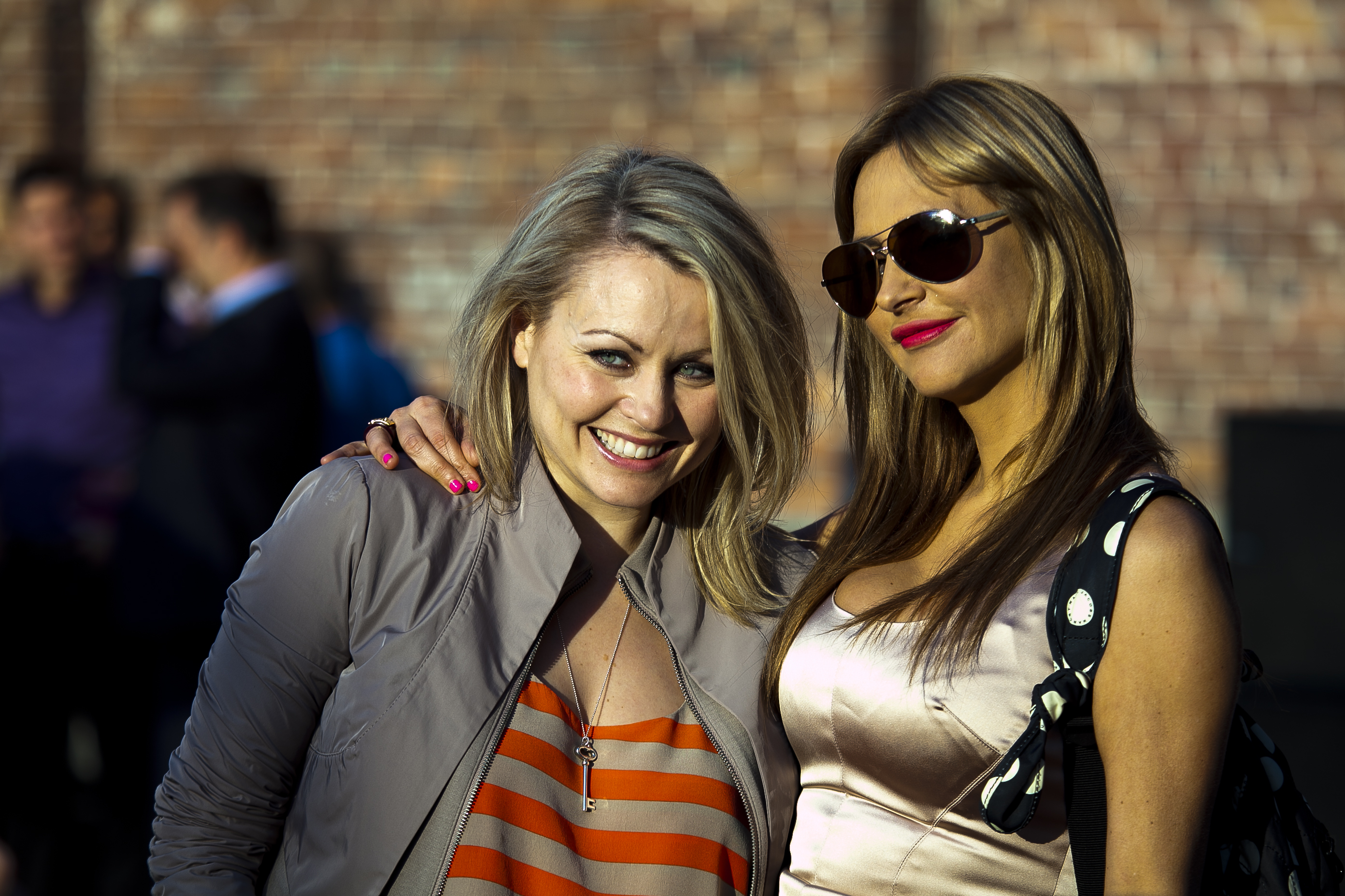 Mitsou Gélinas (left) and Anne-Marie Losique